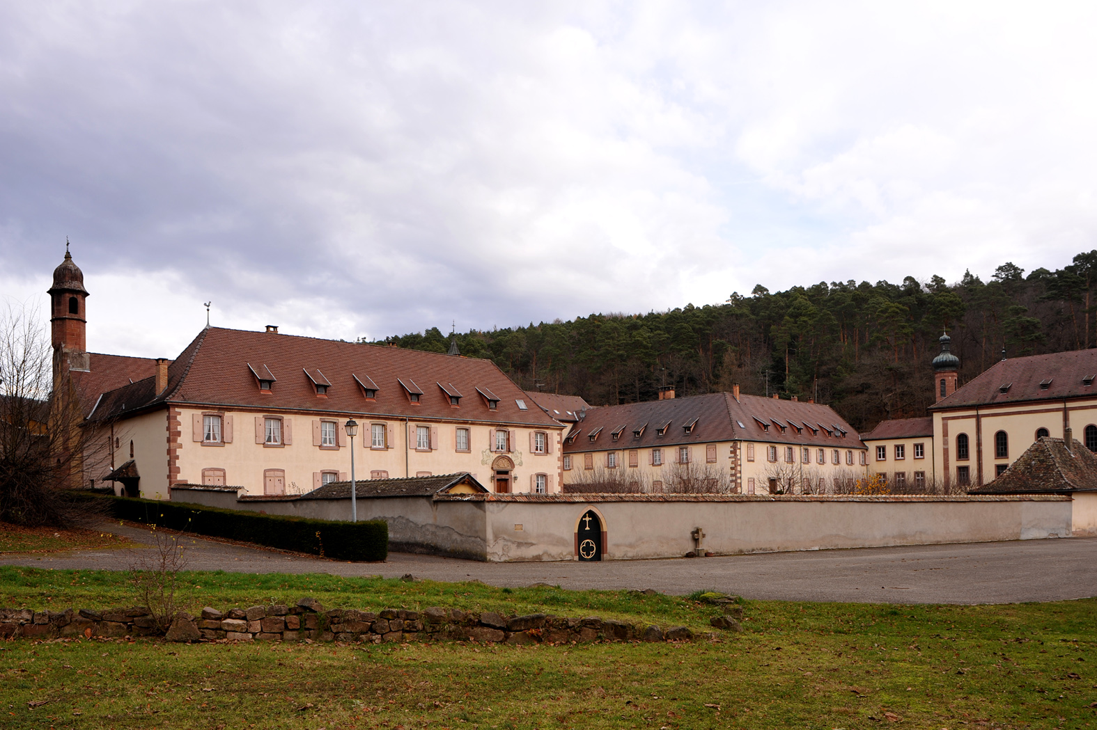 Nunnery Saint-Marc above Gueberschwihr; Haut-Rhin, France.